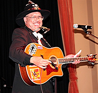 Photo of Dennis Kamakahi at Hawaiian Music Hall of Fame induction